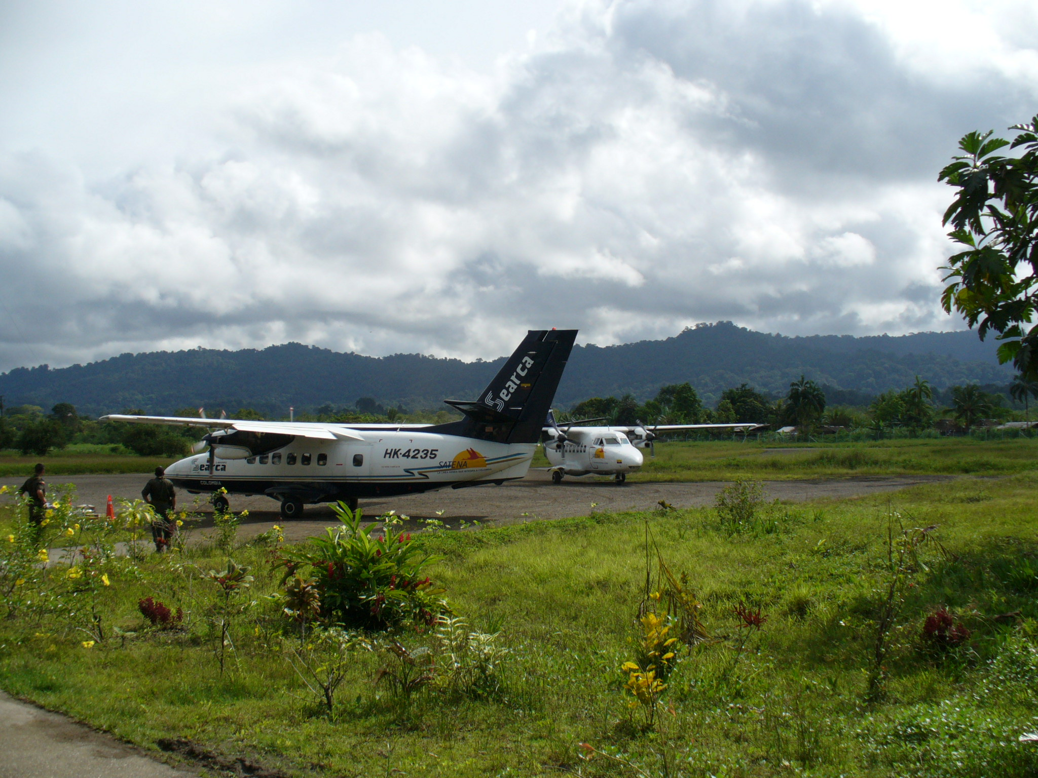 Czech made Let 410 airliner at Nuqui airport, Colombia